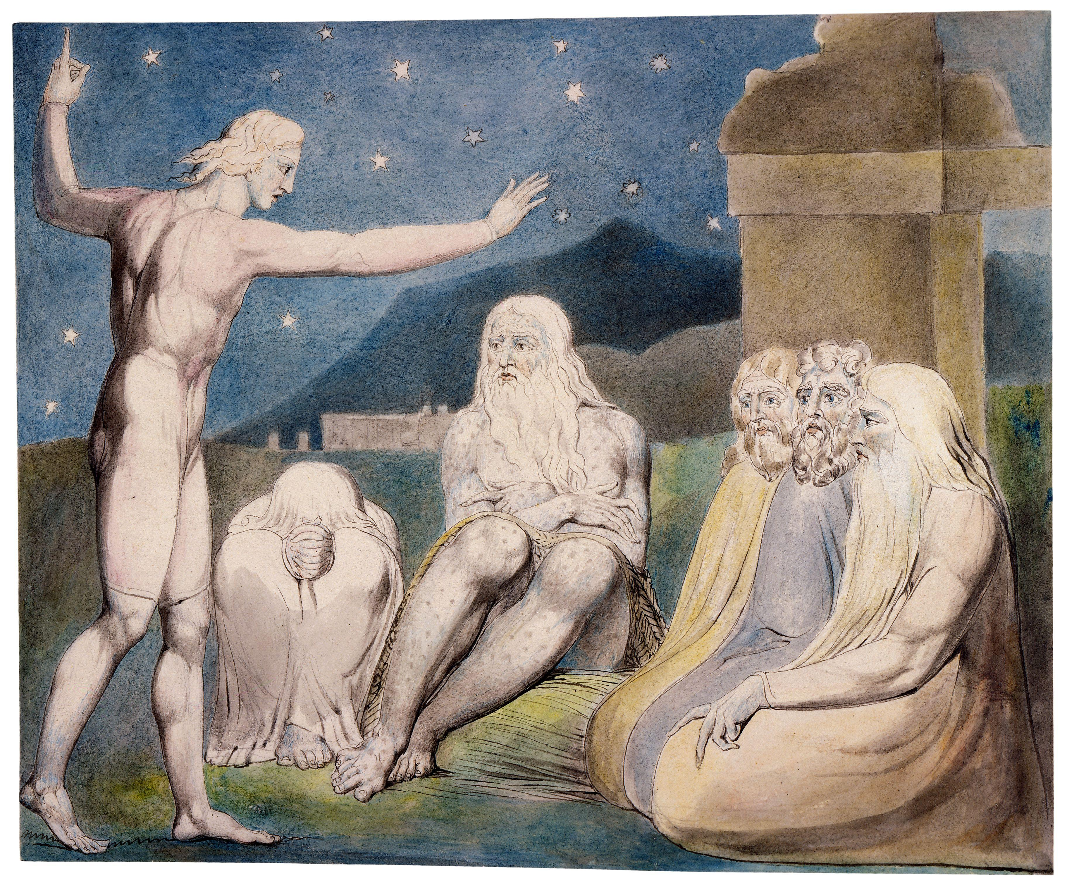 The Wrath of Elihu, from the Butts set. Pen and black ink, gray wash, and watercolour, over traces of graphite